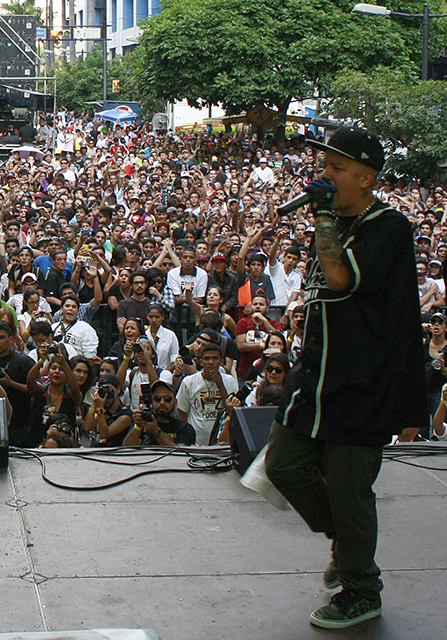 Presentación en Tu Voz es Tú Poder